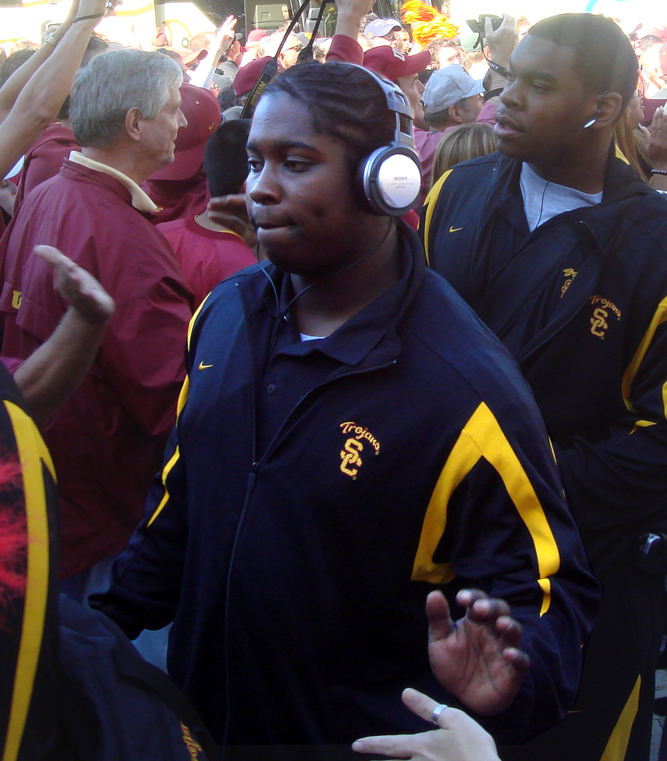 Then-freshman defensive tackle DaJohn Harris, walking with the rest of the USC Trojans football team towards Notre Dame Stadium.